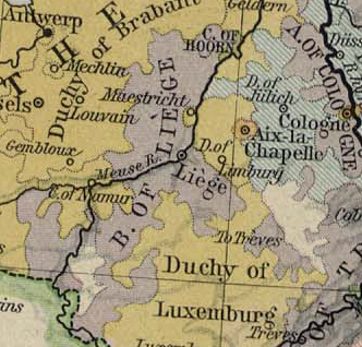 Map showing the Prince-Bishopric of Liège and the County of Horne